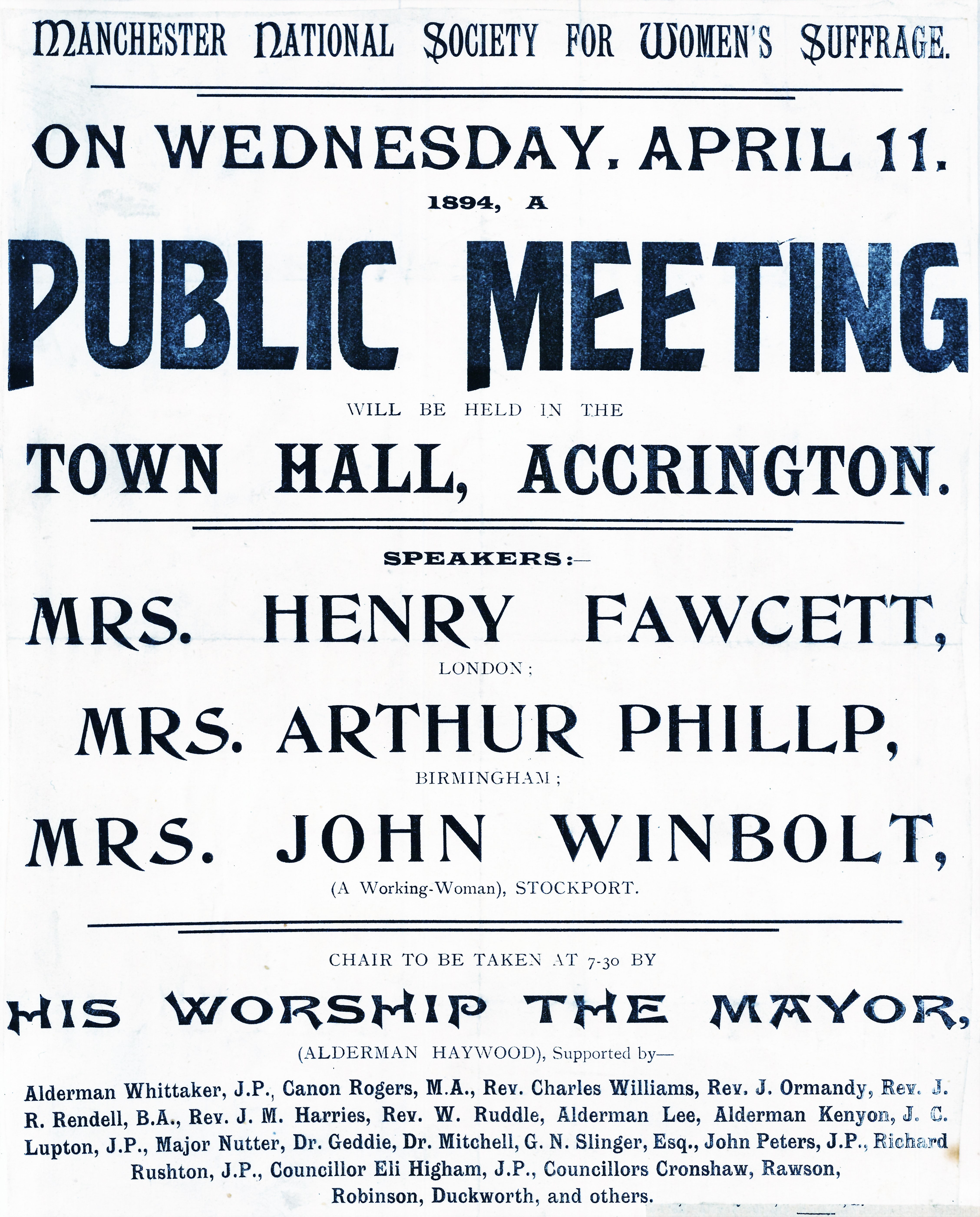 List of speakers